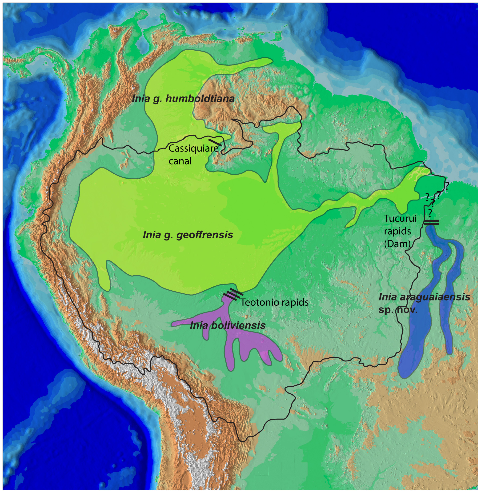 Distribution map of known species and subspecies of the South American river dolphin genus Inia, following the recognition of Inia araguaiaensis as a separate species. The original PLoS ONE image has been modified by conversion from tiff to jpeg format.